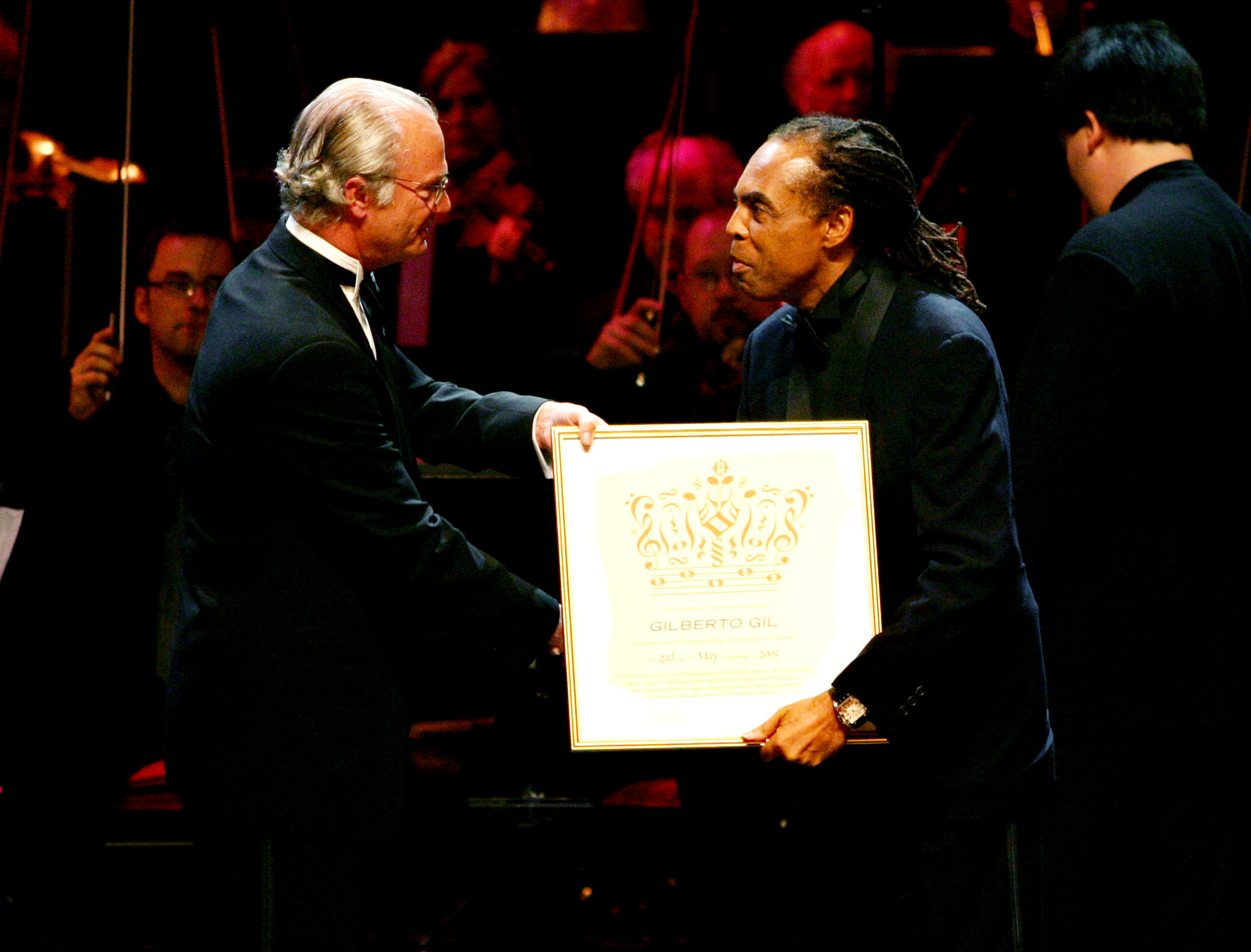 Gilberto Gil receives the 2005 Polar Music Prize from the hands of His Majesty, King Carl XVI Gustaf of Sweden at the Stockholm Concert Hall.